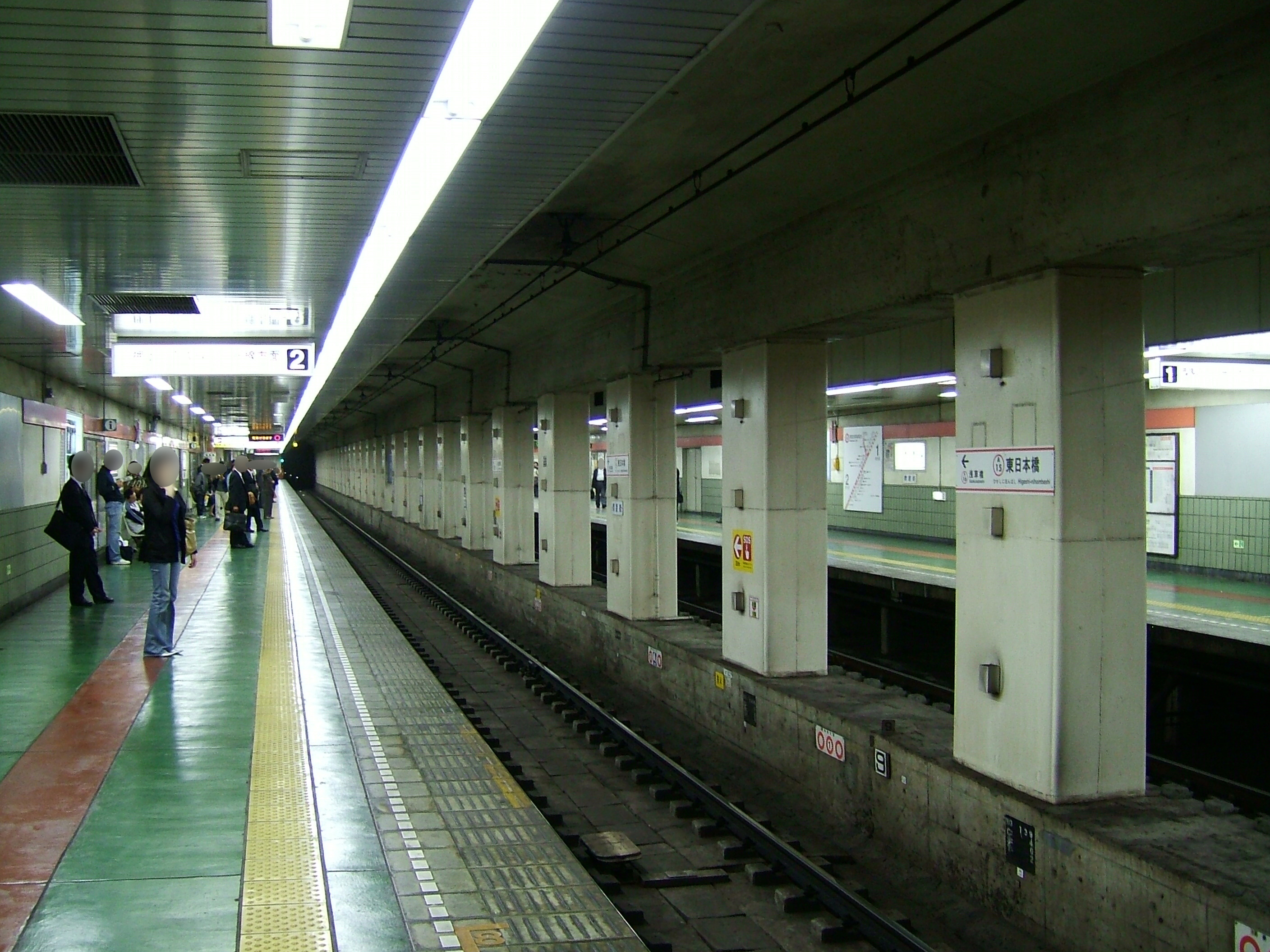 The platforms at Higashi-nihombashi Station on the Toei Asakusa Line in Chuo city, Tokyo, Japan